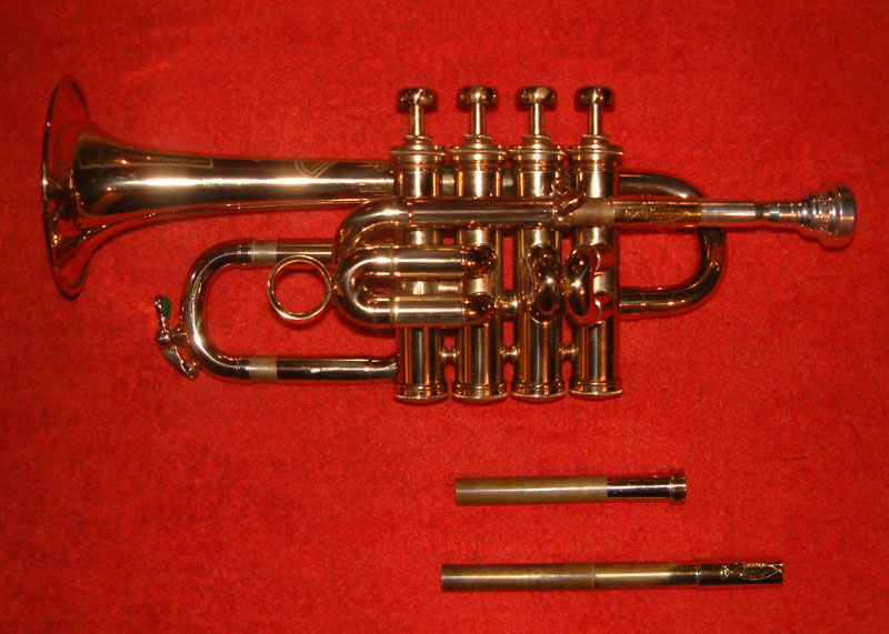 Selmer piccolo B♭/A trumpet. In the instrument is a Blackburn B♭ leadpipe; beside it is the original Selmer B♭ leadpipe and the longer one is a Blackburn A pipe.